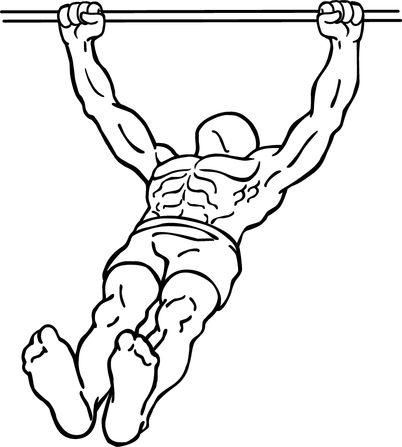 an exercise of upper back